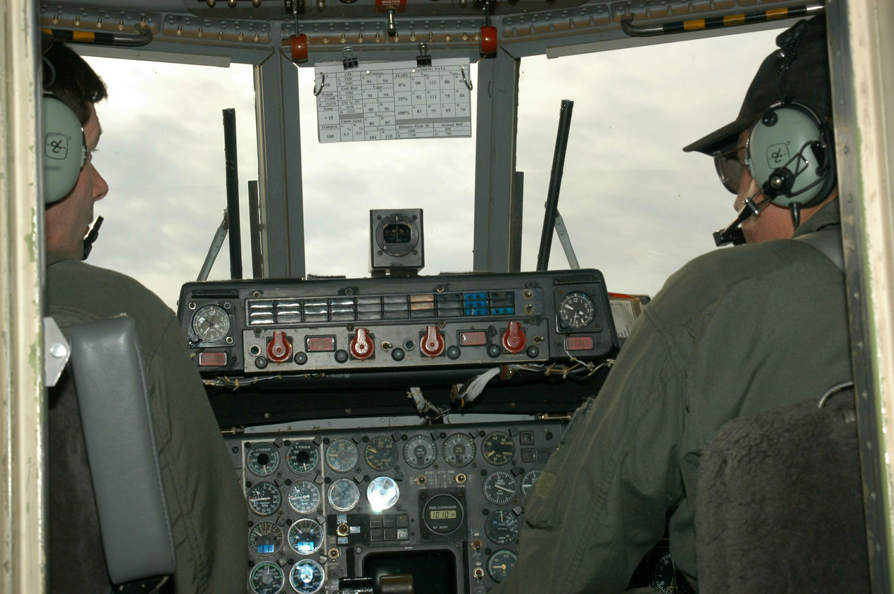 CASA-212 pilots Mike Stender and Bud Anschuetz from the U.S. Army Special Operations Command Flight Detachment fly Soldiers from the 528th Special Operations Support Battalion (Airborne), Fort Bragg, N.C. out of Raeford Parachute Center, Raeford, N.C. Feb. 10, 2004 to conduct an airborne operation onto Fort Bragg's St. Mere Eglise Drop Zone.